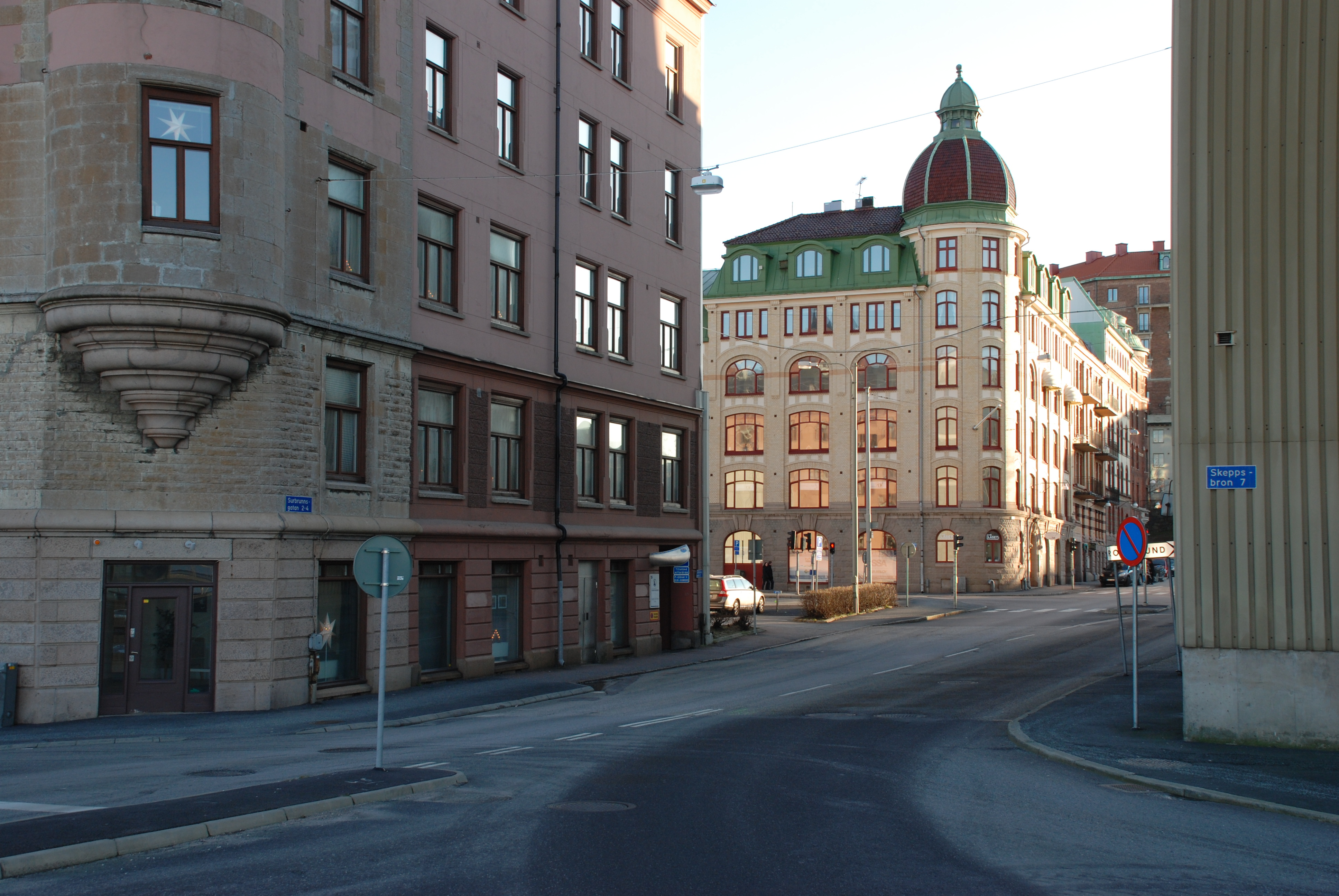 Surbrunnsgatan 2 at Skeppsbron in Göteborg.